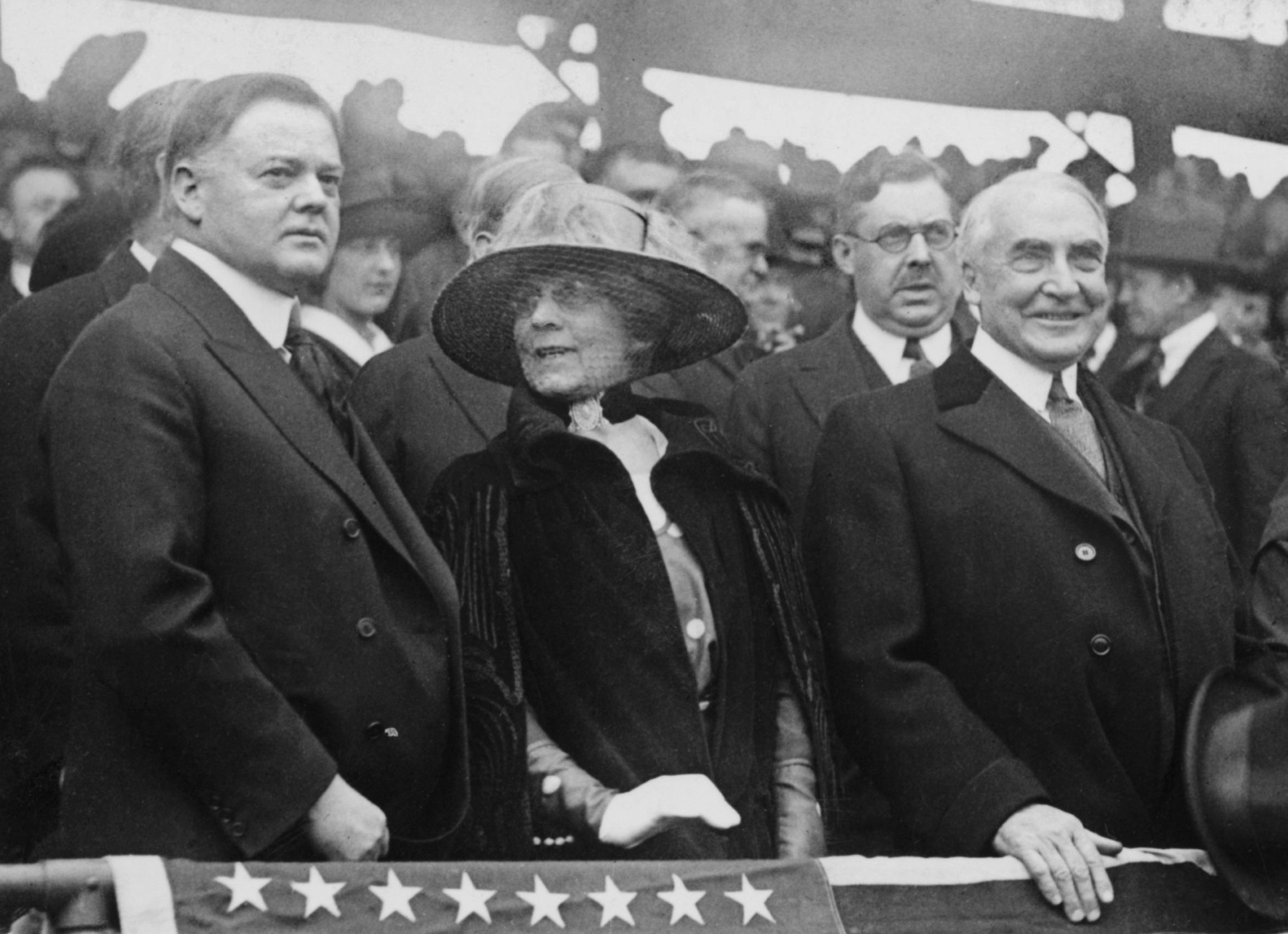 Left to right: Herbert Hoover, Mrs. Warren G. Harding, Warren G. Harding, all standing, in grandstand, at baseball game.